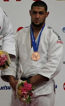 +100kg category of the 2010 World Judo Championships held in Tokyo, Japan. Islam El Shehaby (Egypt))